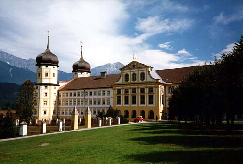 Stift Stams, Tyrol, Austria